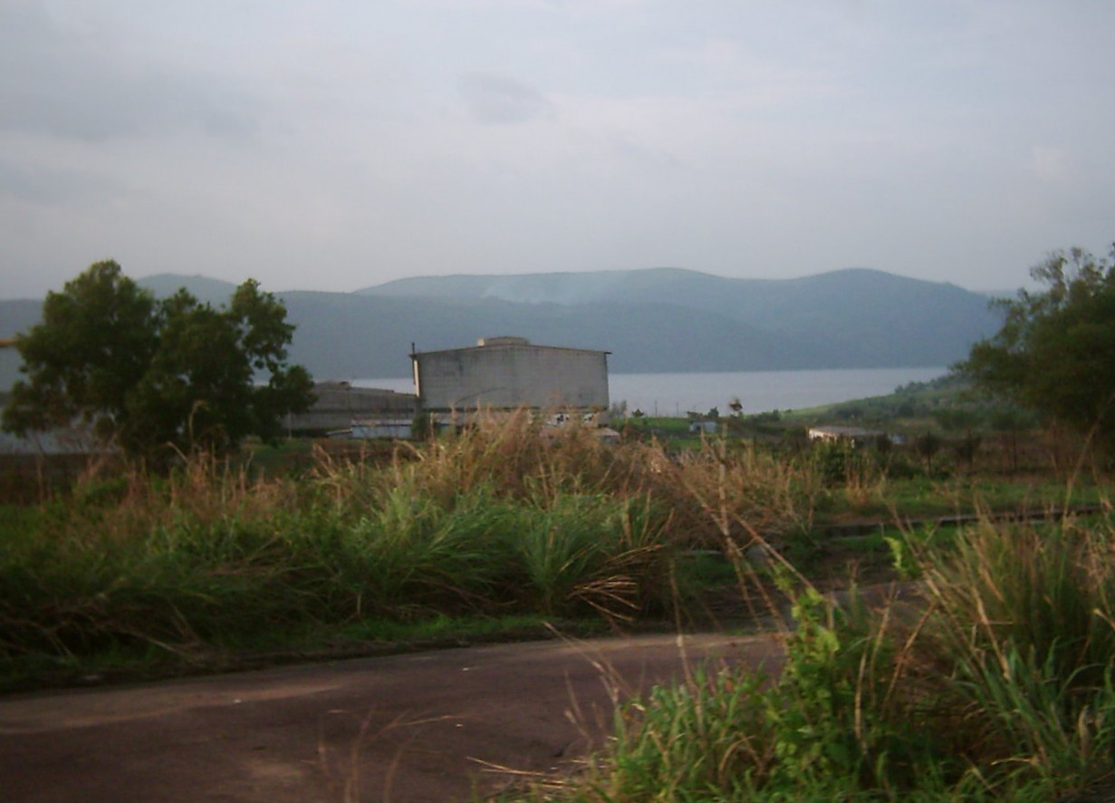 Maluku (Congo) iron factory ruins